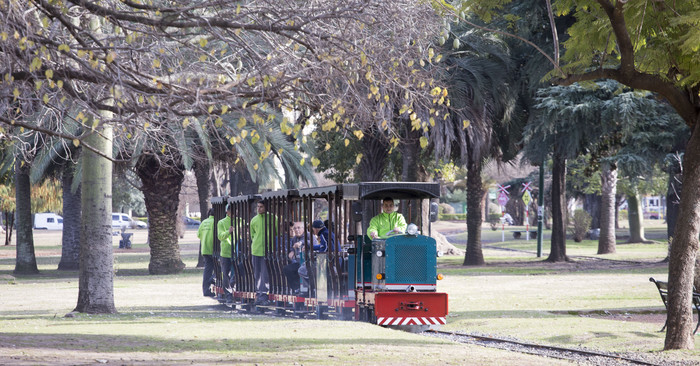 Tren del Parque Avellaneda. Fotos Andrés P. Moreno / prensa Mayep GCBA